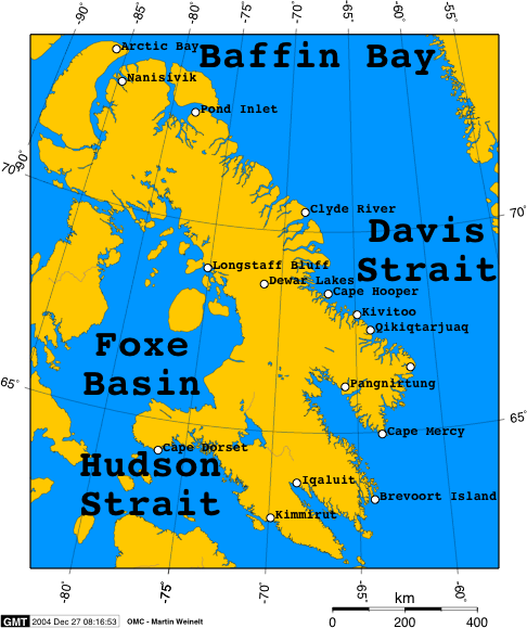 Lambert azimuthal projection of :w:Baffin Island]|Baffin Island ] Nunavut, Canada